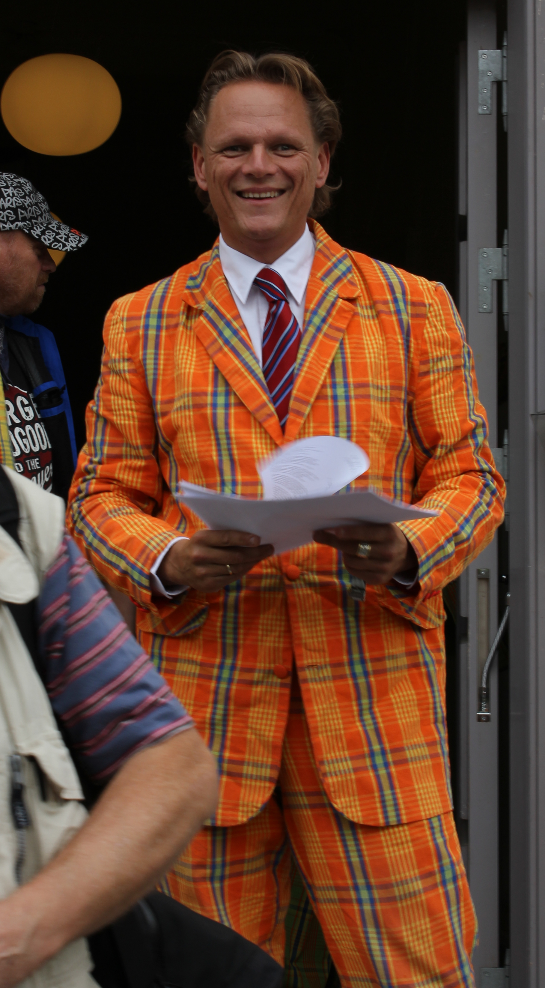 Soren Sigurd Barrett (born January 20, 1967) is a Danish pianist, entertainer, composer and author. Sigurd Barrett's music spans many musical styles, and with his performances in venues across the country and in several TV shows, he is a significant personality in Danish musical life.This picture is from Kolding Culture Night 2010.